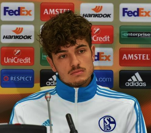 Roman Neustädter